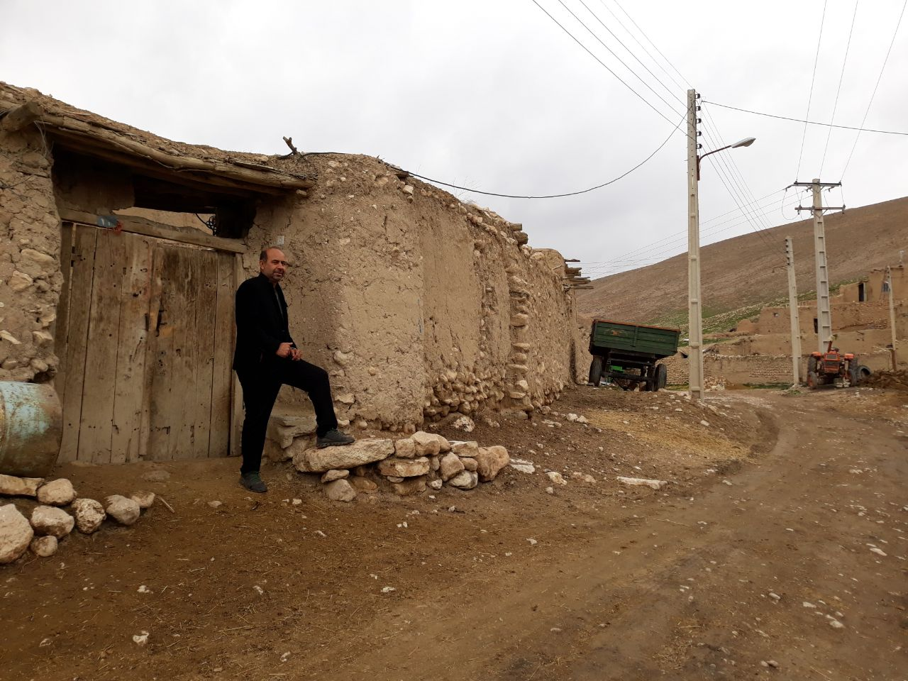 Village House